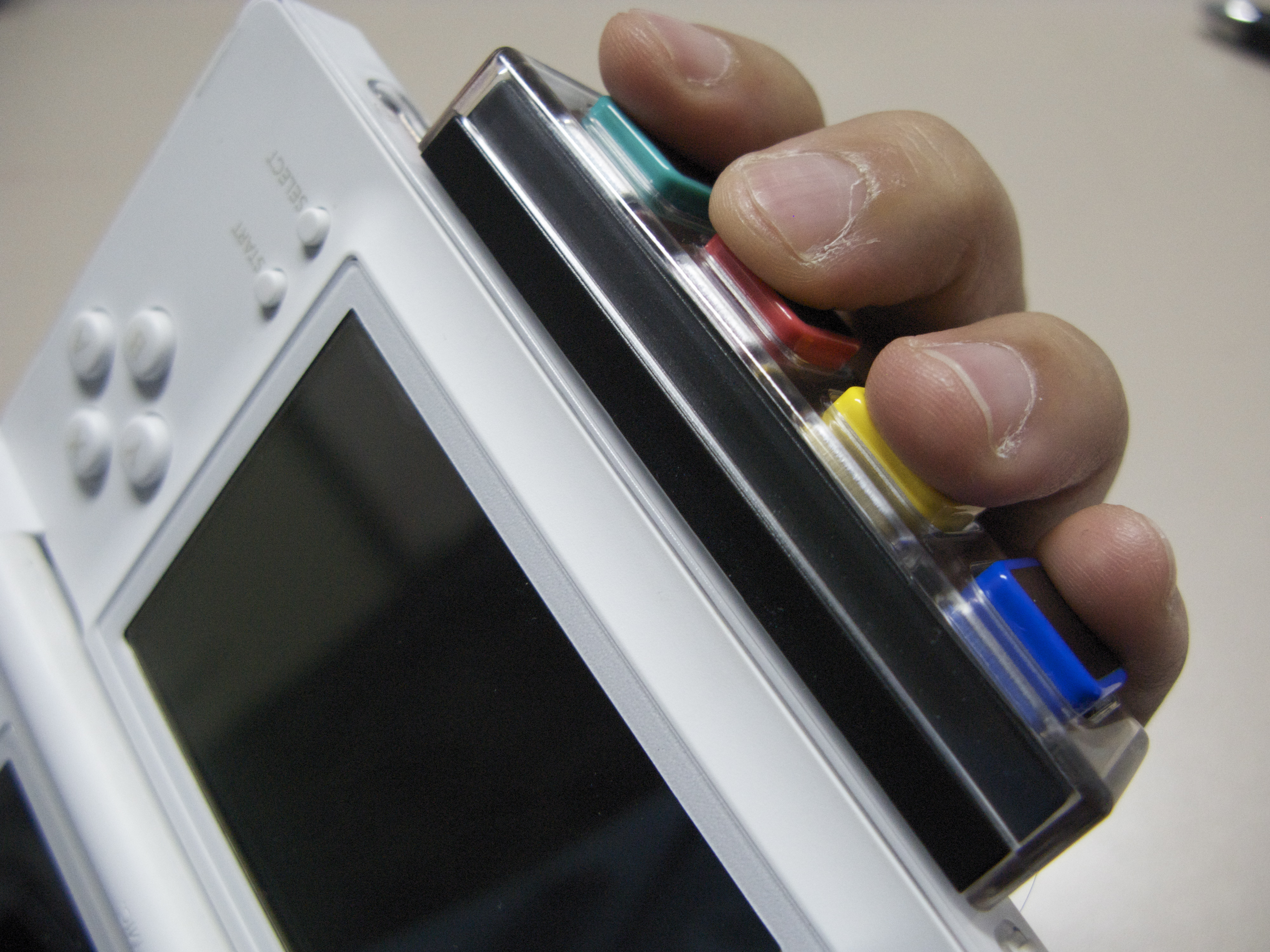 My hand on the fret board